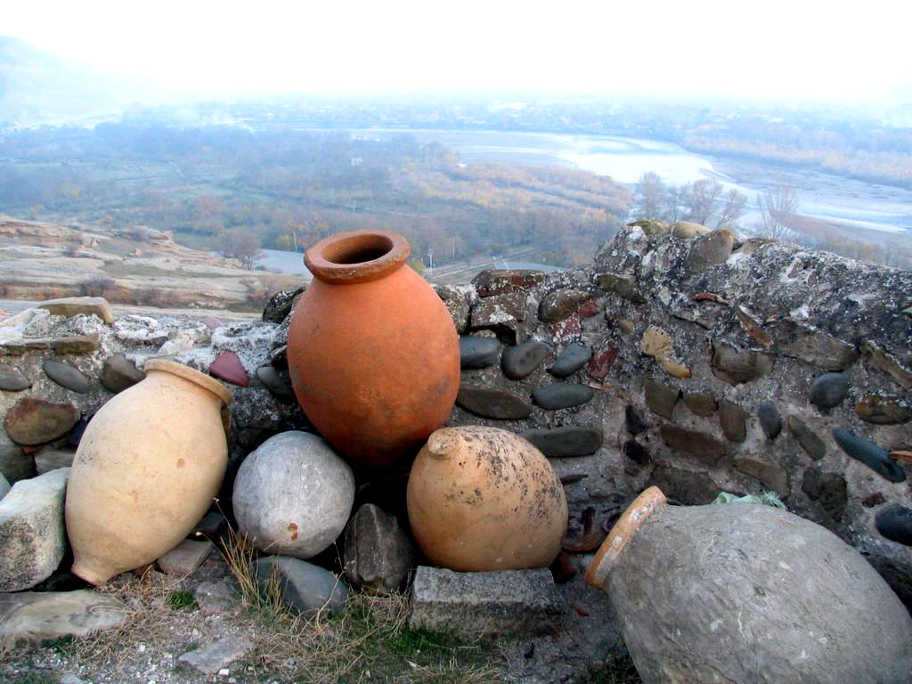 Jugs in Georgia